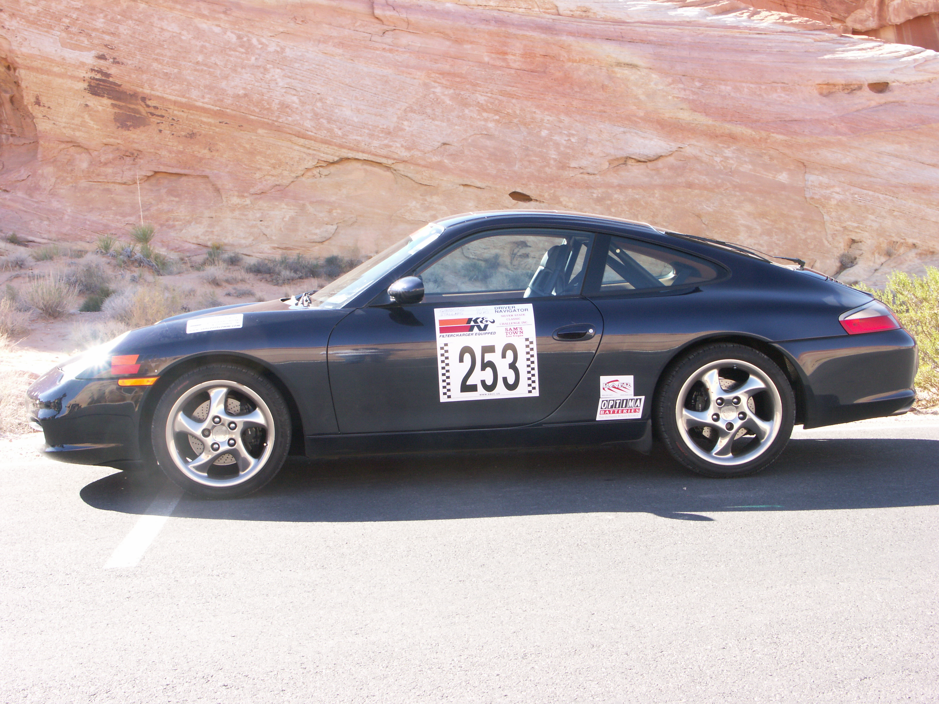 Photo taken by me, Simon Gibbons, of my own car (Porsche 996 Carrera with integrated roll cage) shortly after the 2006 Silver State Classic Challenge.